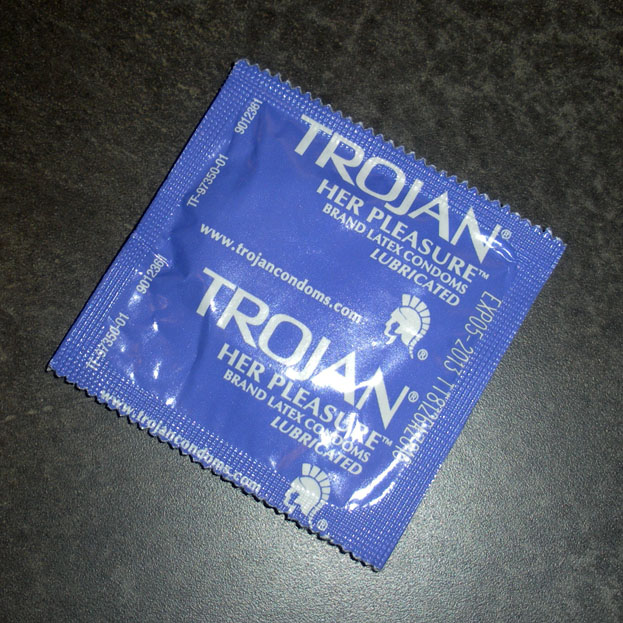 Unwrapped condom